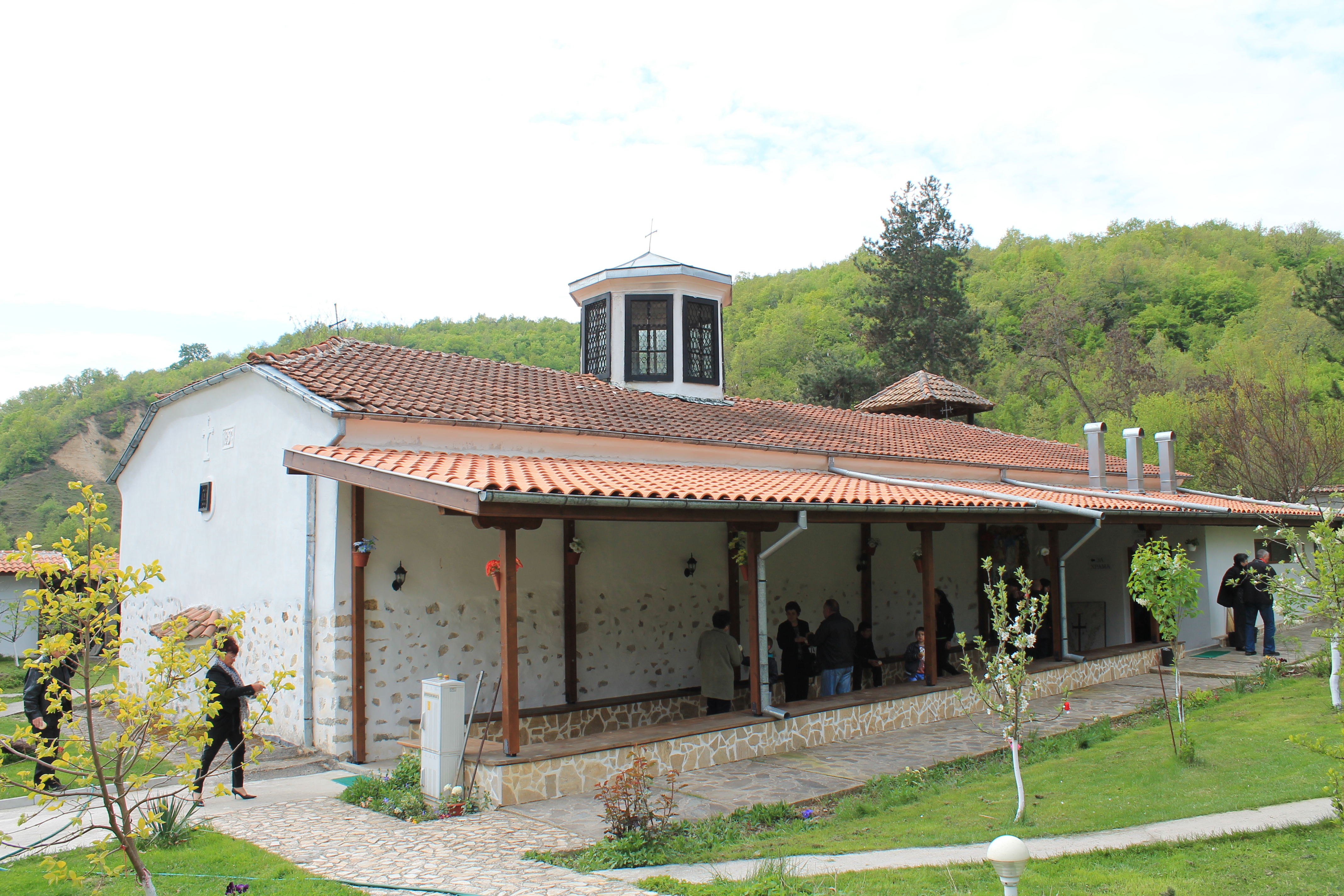 St. George Church, village Zlatolist, Southwestern Bulgaria